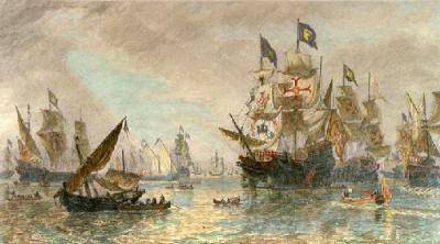 This picture by Sir Oswald W. Brierly captures in a very Victorian and romantic way the very moment when the Spanish Armada sets sail to Britain, leaving the safety of the well gathered port of El Ferrol in North-western Spain.